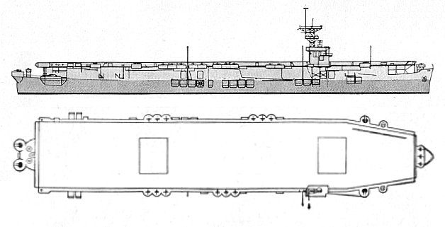 Side and deck drawings of a U.S. Navy Sangamon-class escort carrier.